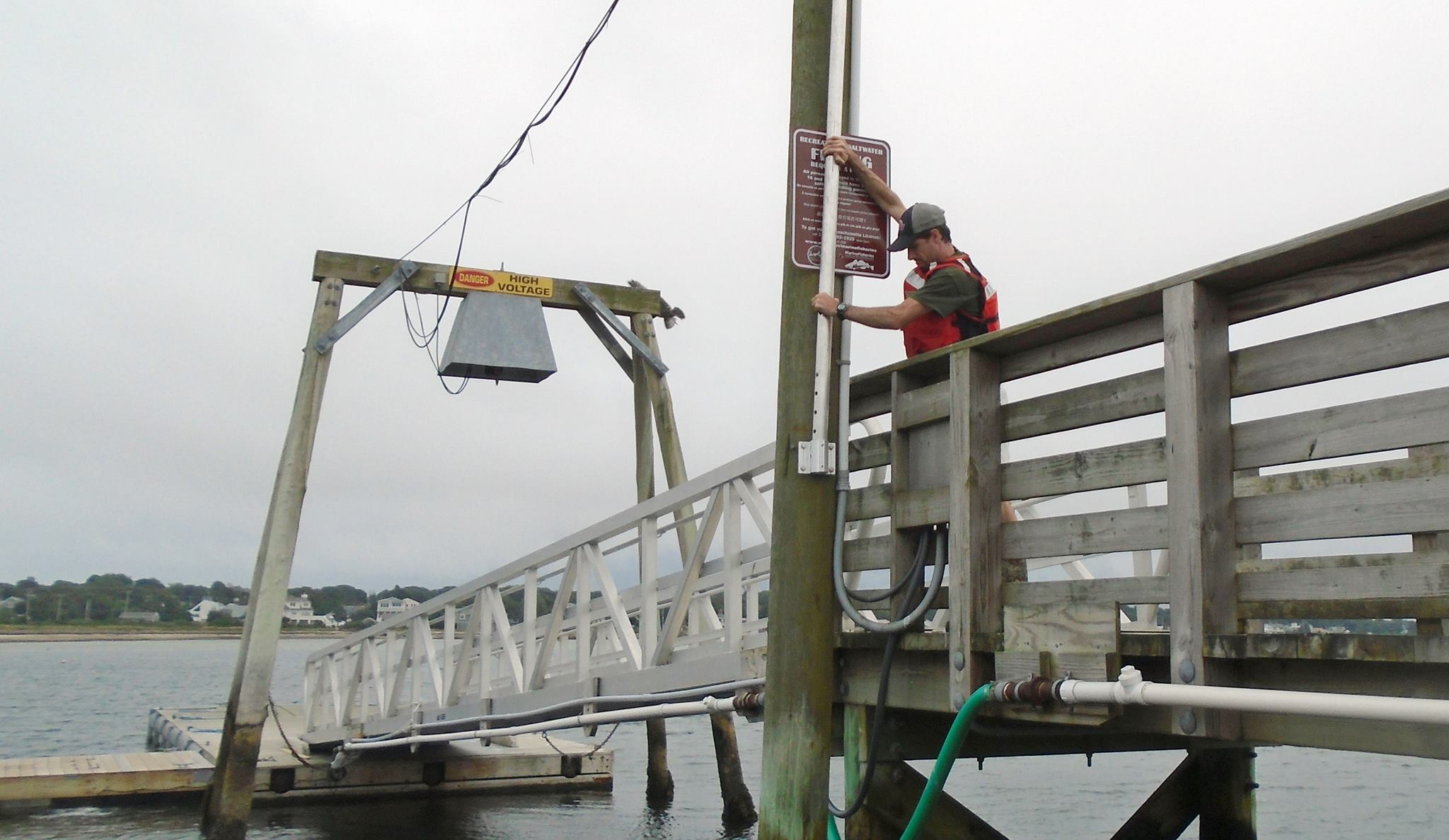 In response to Hurricane Jose, U.S. Geological Survey specialists across three states installed 17 storm-tide sensors – seven in Connecticut, seven in Massachusetts and three in Rhode Island – along shorelines likely to receive some large waves and storm surge from the storm. These scientific instruments were put in place ahead of Jose to collect information about the hurricane’s effects on the coast. The retrieval of the sensors and the valuable data they hold will begin once Jose has passed. To learn where the storm-tide sensors were deployed for Jose, visit the USGS Hurricane Jose Flood Event Viewer. The U.S. Geological Survey use many forms of technology to track and document the effects of hurricanes along the Gulf and Atlantic coasts.